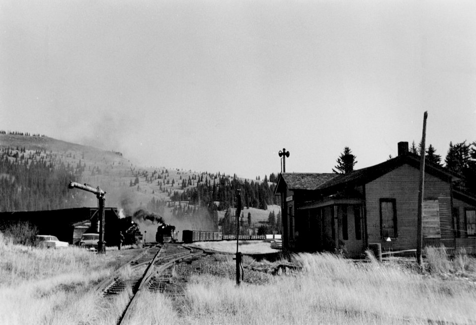 A narrow gauge Denver and Rio Grande freight train (westbound) arriving at Cumbres Station (elevation: 3 052 meter). The train covered a route from Alamosa to Durango. This section of the line (Antonito - Chama) is preserved as the Cumbres & Toltec Scenic Railroad.